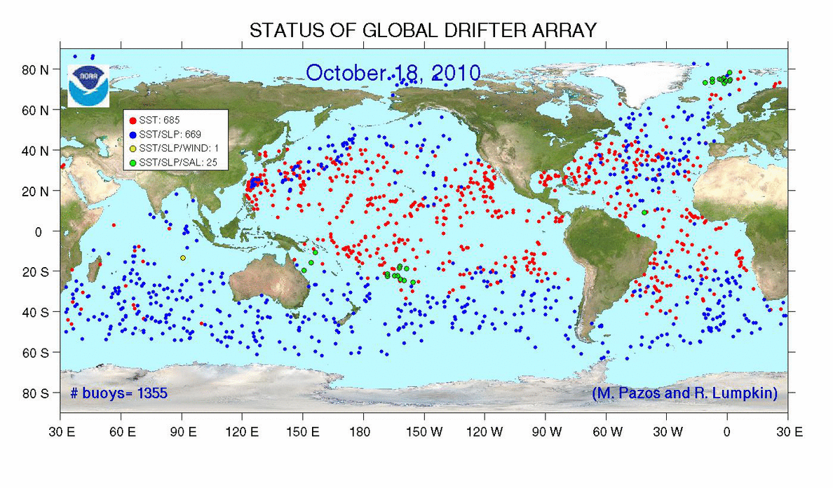 Status of Global Drifter Network